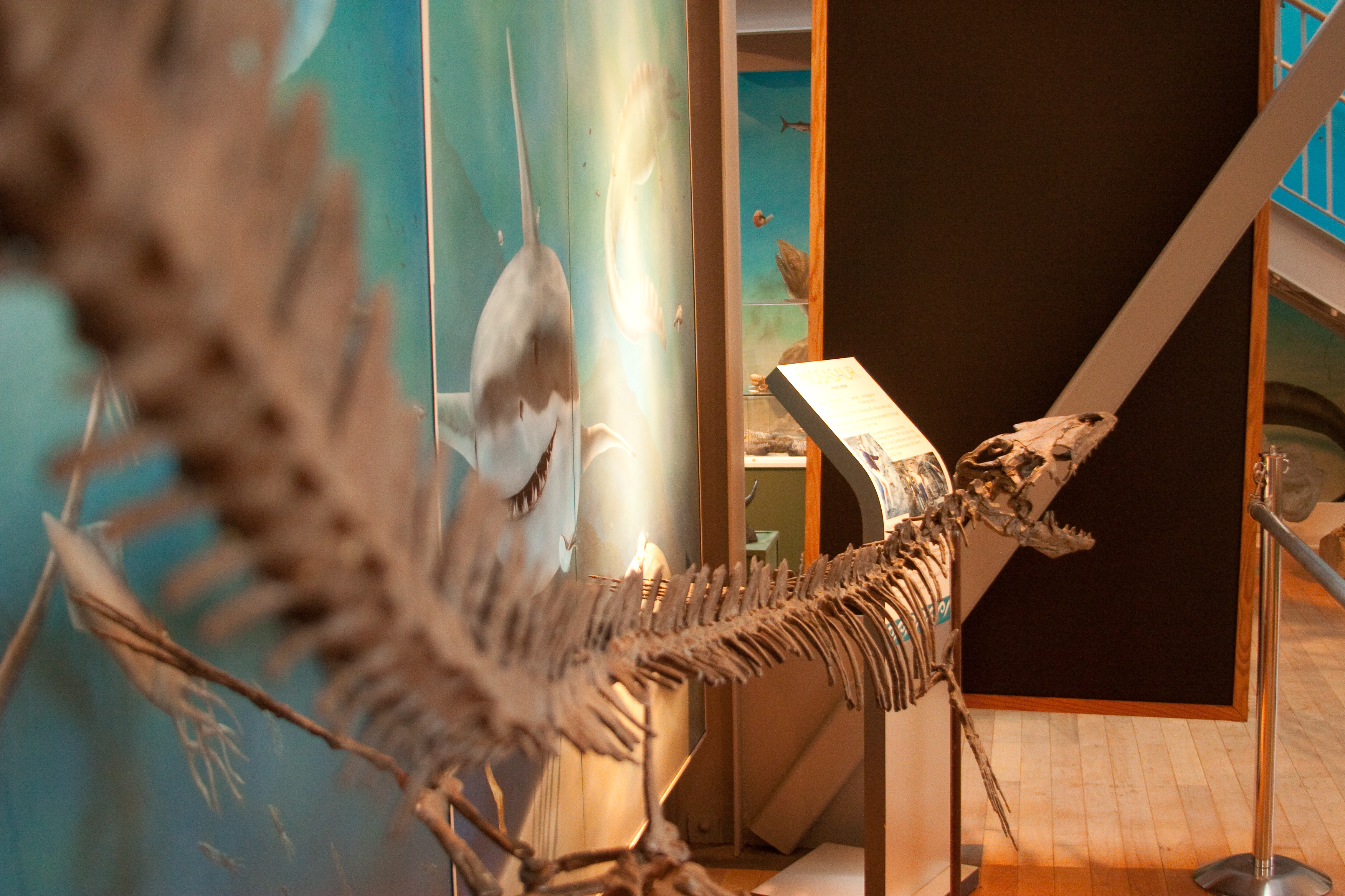 Dinos at Courtenay Museum -20090628-11